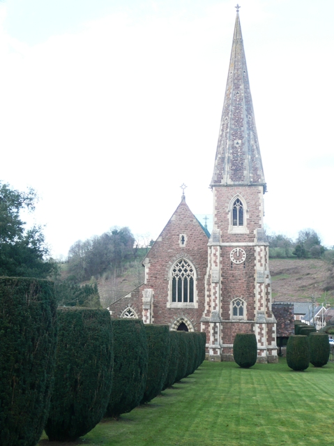 St. Peter, Clearwell An impressive church with its attendant clipped yew bushes. Mid-nineteenth century "French Gothic" style, opened in 1866.